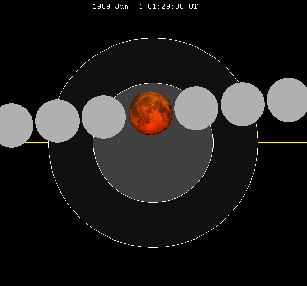 June 1909 lunar eclipse chart of moon's lunar eclipse path through the earth's shadow. thumb